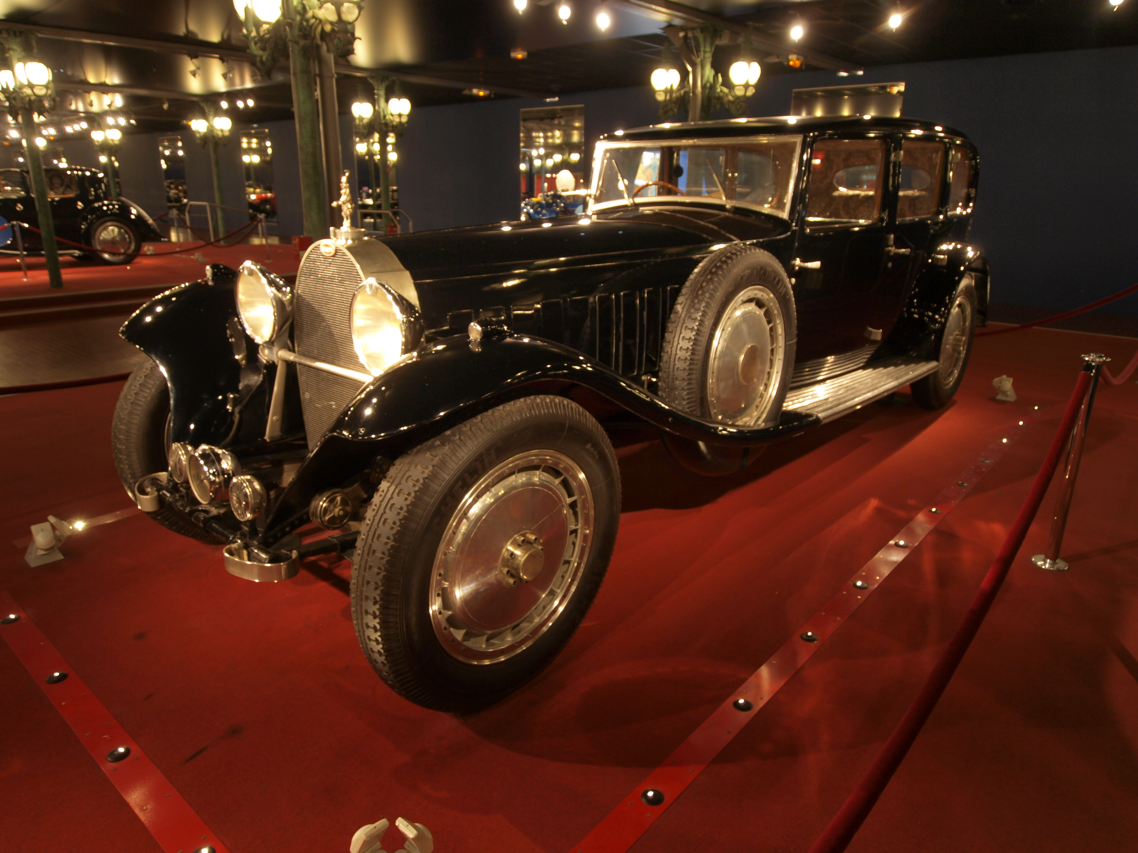 Photographed at the Cité de l’Automobile, France. OLYMPUS DIGITAL CAMERA